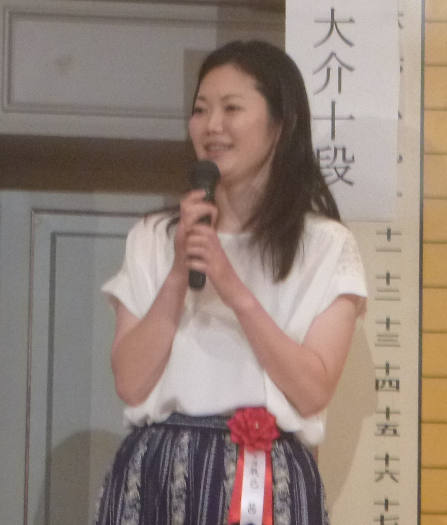 Japanese go player Akane Tatsumi at the exhibition match of World Go Festival in Takaraduka, Hyogo, Japan.